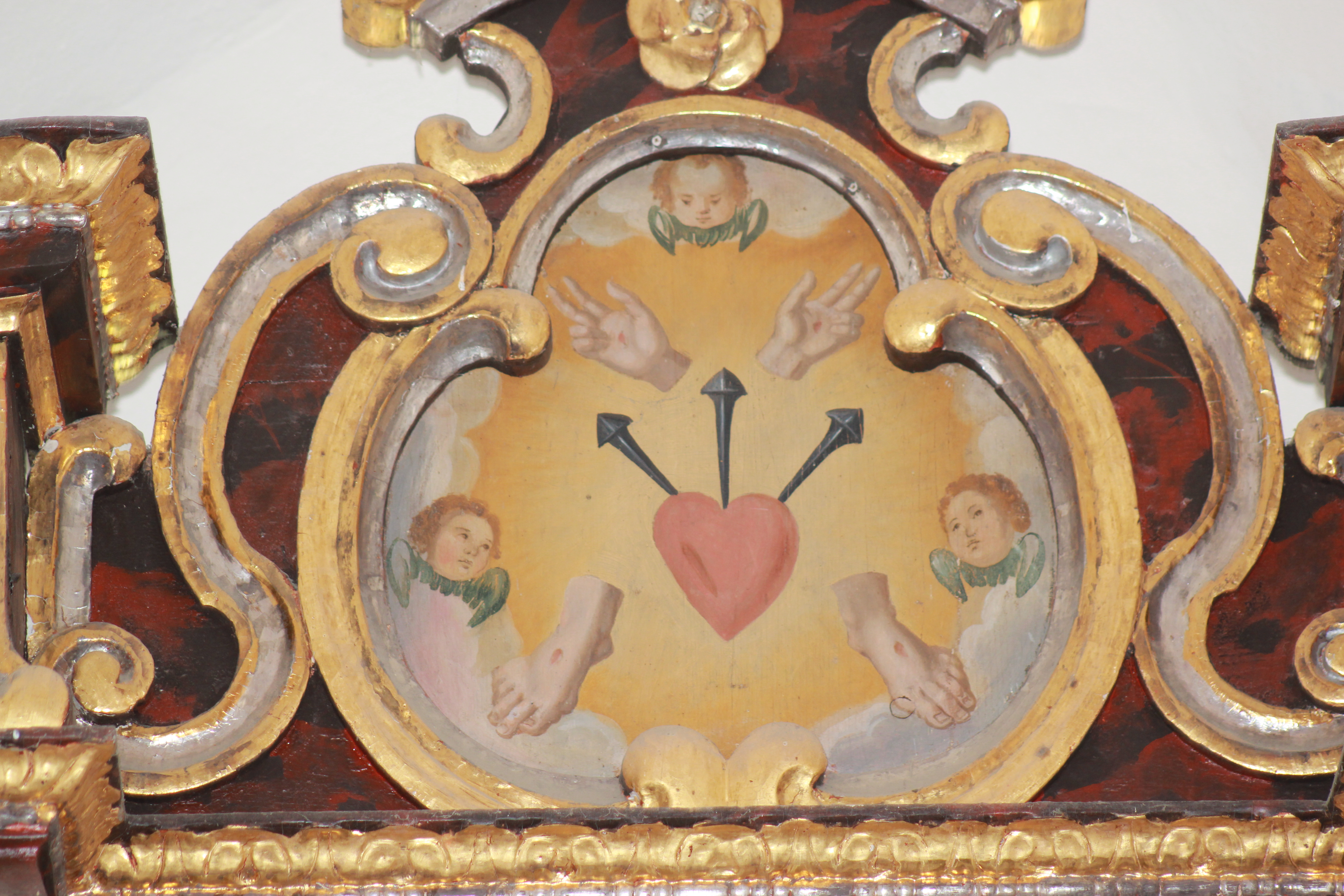 Subsidiary church on top of Lorenziberg the community Frauenstein - Altarpiece